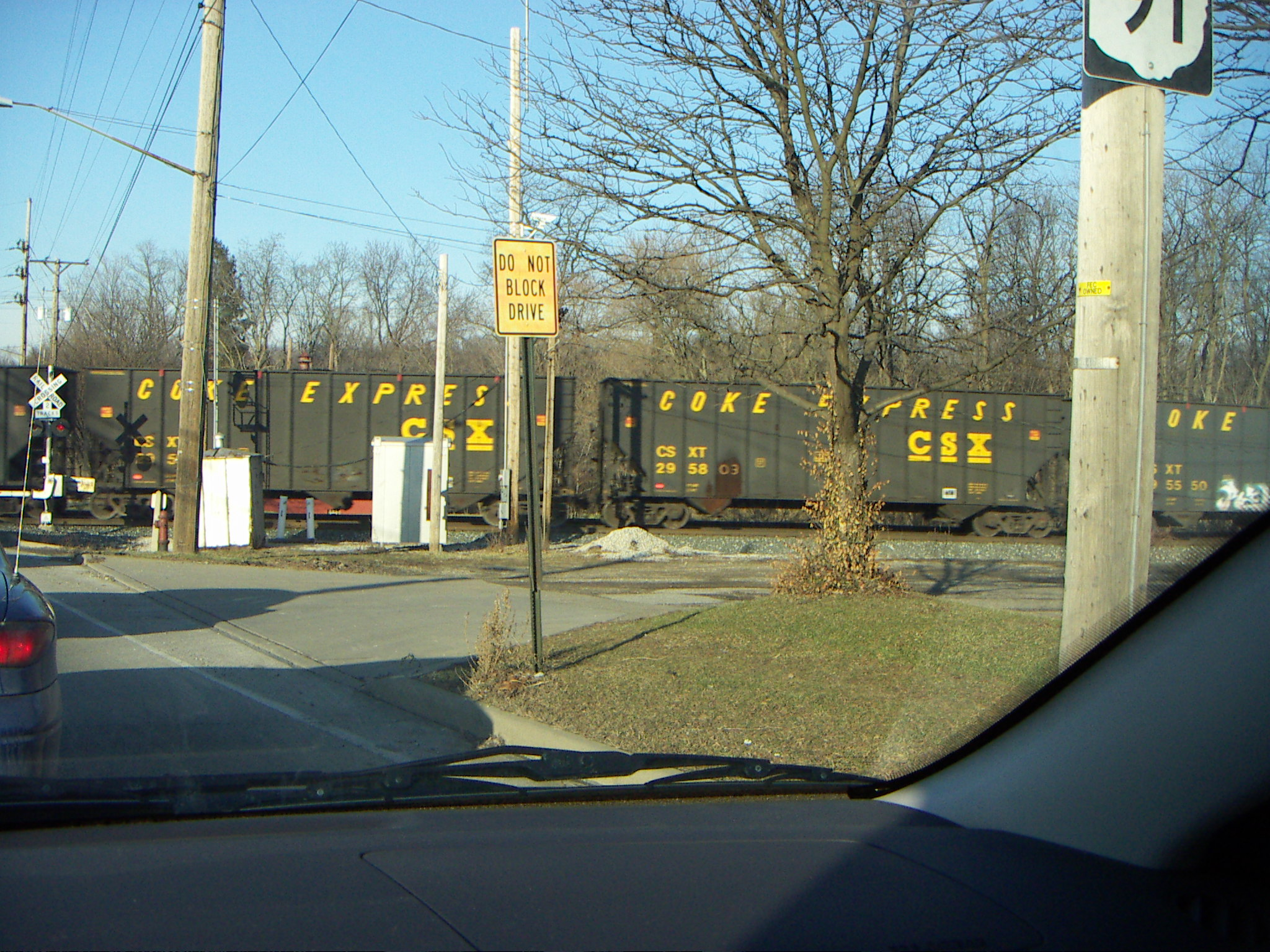 When you need some coke really fast--- and I mean really need, trust your 'shipment' to Coke Express (a divison of CSX).